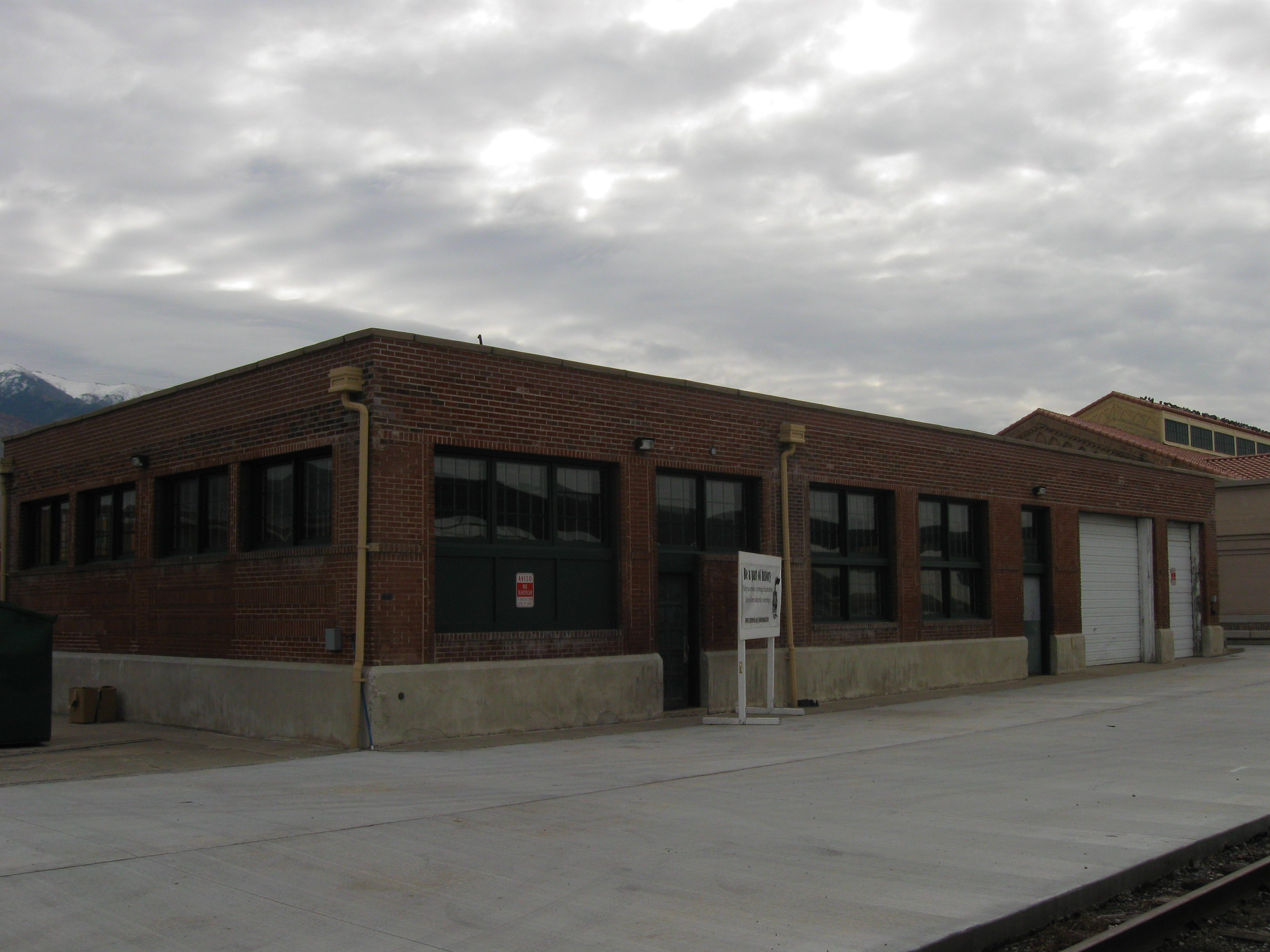 The former Trainmen's Building at the Utah State Railroad Museum complex in Ogden, Utah. Currently used as a shop for the restoration of steam locomotive D&RGW 223.